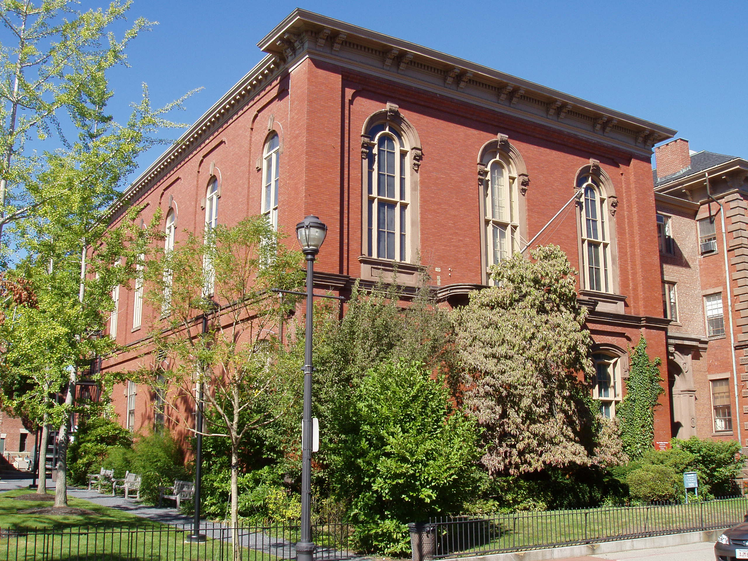 Plummer Hall (formerly Salem Athenaeum) - Salem, Massachusetts. Photograph taken by me, September 2005.